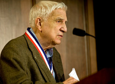 Roger L. Easton considered the father of the GPS. Picture taken at the National Inventors Hall of Fame. Source National Inventors Hall of Fame 2010